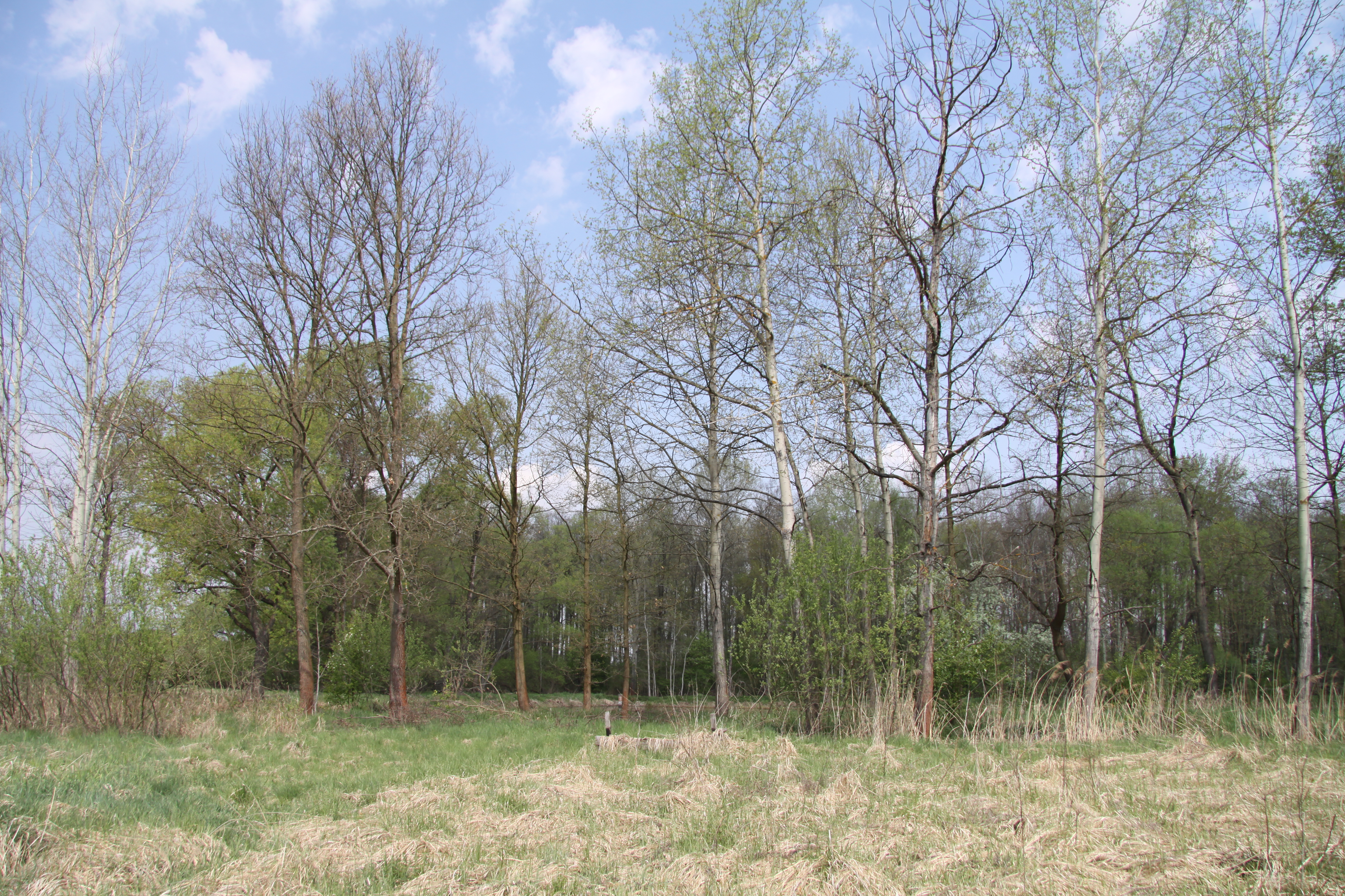 Natural reserve Radomilická mokřina near Radomilice, České Budějovice District, Czech Republic